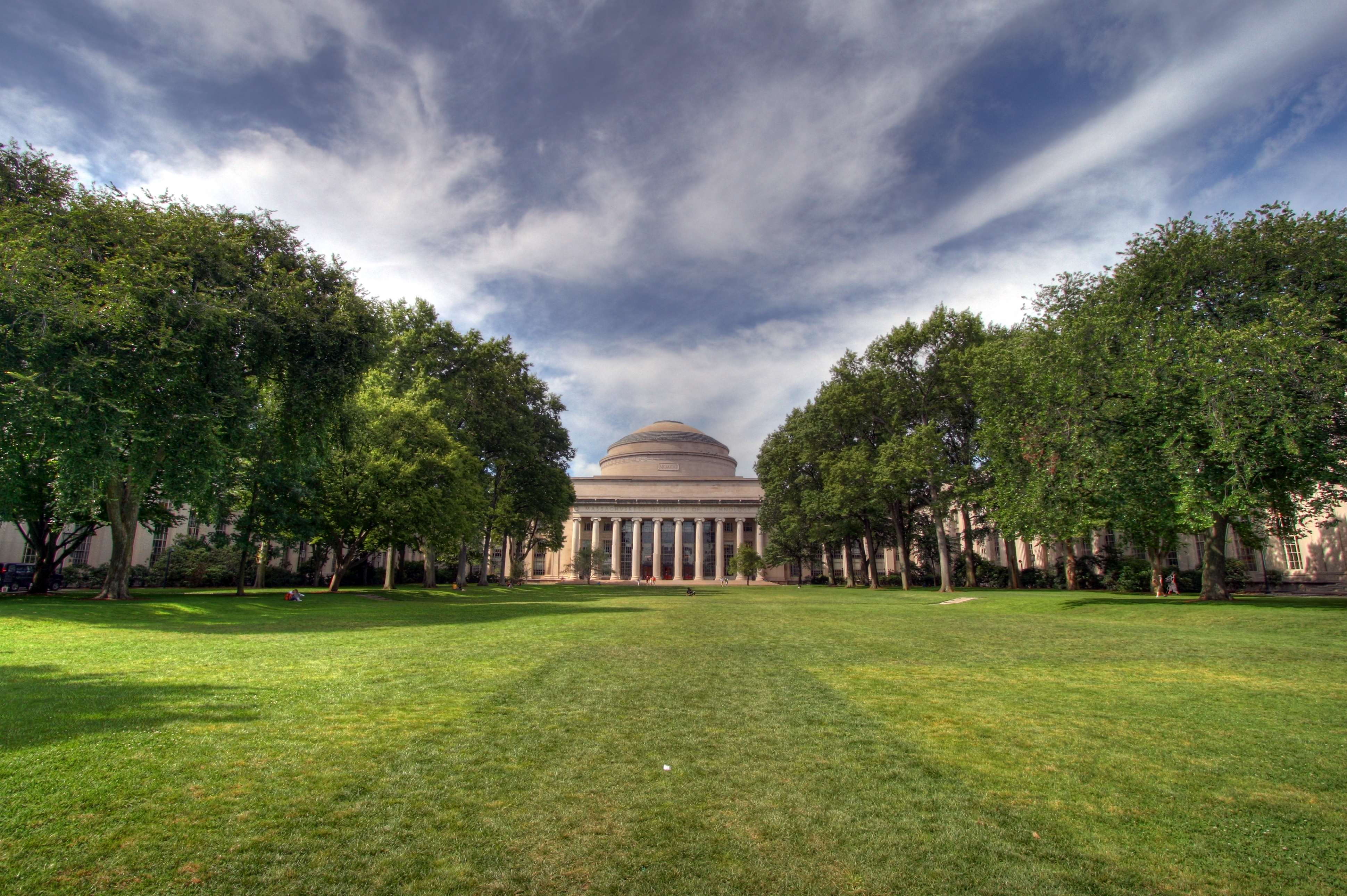 HDR image of the Great Dome and Killian Court at the Massachusetts Institute of Technology